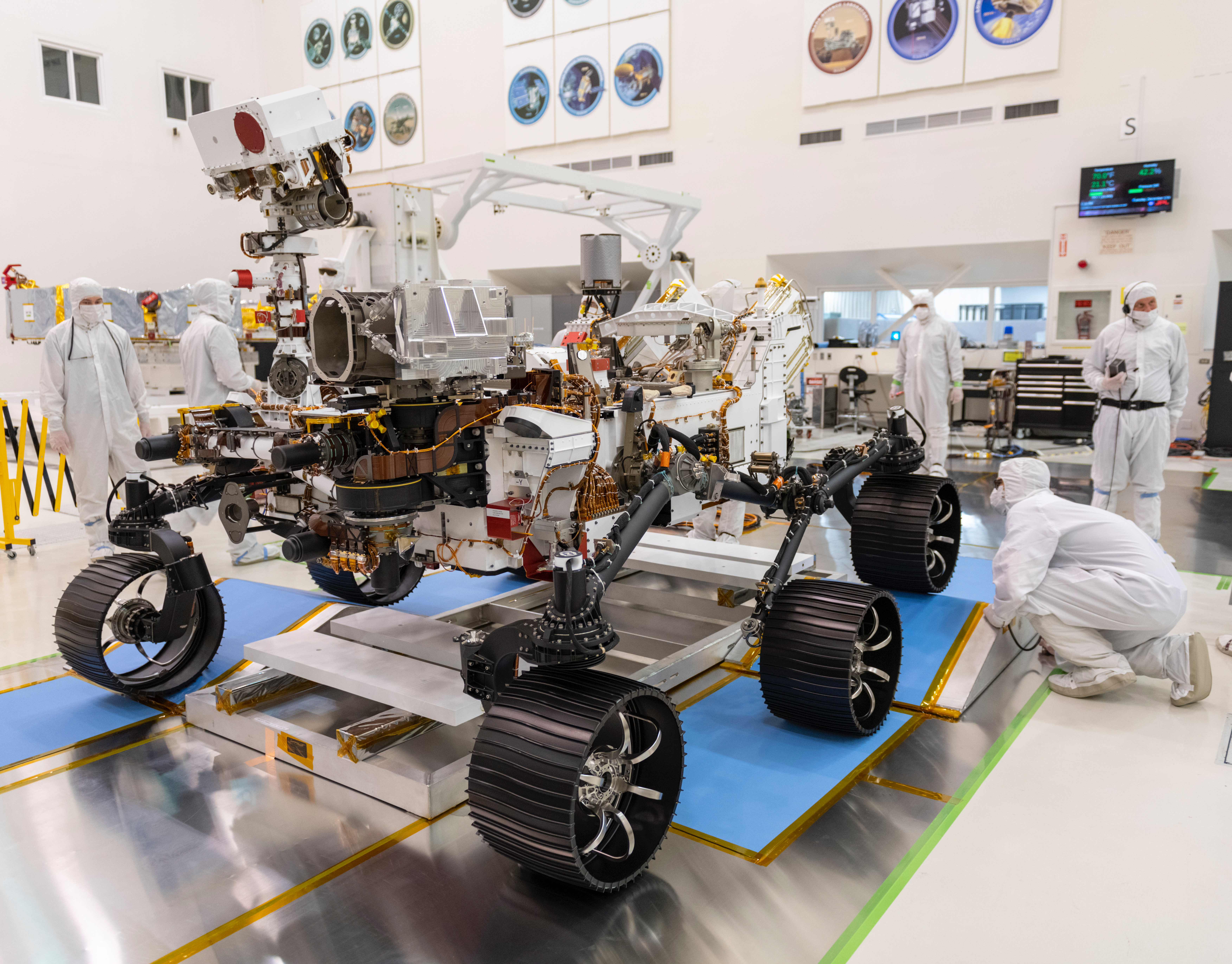 Mars 2020 Rover Is Roving In a clean room at NASA's Jet Propulsion Laboratory in Pasadena, California, engineers observed the first driving test for NASA's Mars 2020 rover on Dec. 17, 2019. Scheduled to launch as early as July 2020, the Mars 2020 mission will search for signs of past microbial life, characterize Mars' climate and geology, collect samples for future return to Earth, and pave the way for human exploration of the Red Planet. It is scheduled to land in an area of Mars known as Jezero Crater on Feb. 18, 2021. JPL is building and will manage operations of the Mars 2020 rover for NASA. NASA's Launch Services Program, based at the agency's Kennedy Space Center in Florida, is responsible for launch management. For more information about the mission, go to